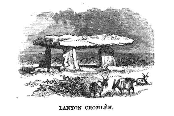 A Week at the Land's End - Lanyon Quoit